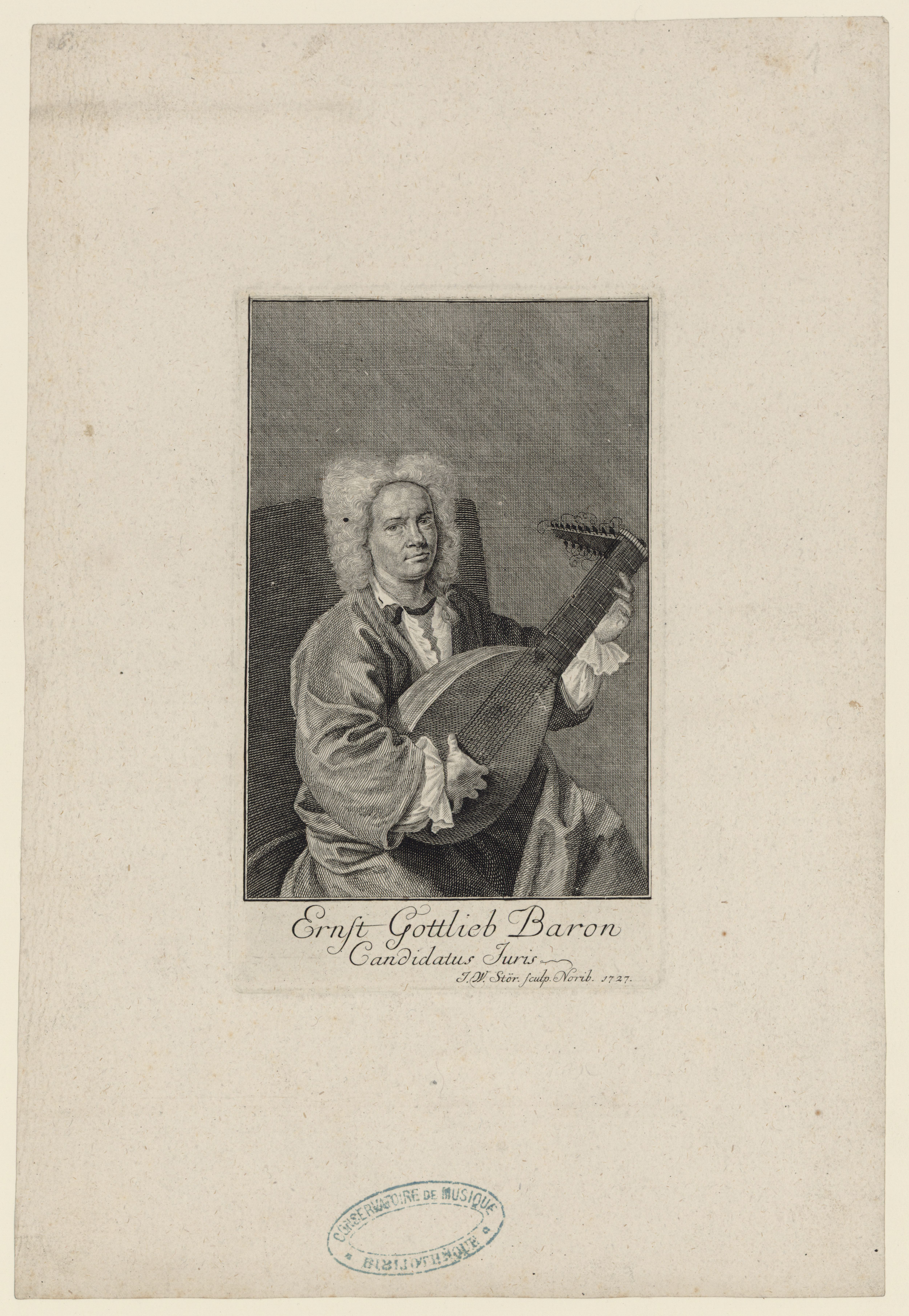 The german composer Ernst Gottlieb Baron (1696-1760)